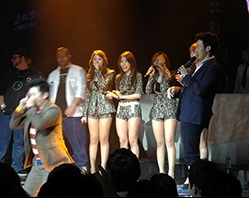 현장에서 시크릿을 배알한 남성 개발자들은 하나같이 환희에 가득 찼다 (Secret Poison, party) - Cropped version